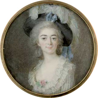 Giovanna Bassi was an italian dancer that moved to Sweden and worked at the Royal Opera in Stockholm from 1783 until 1794 when she married Peter Hinrik Schön (1765-1821).